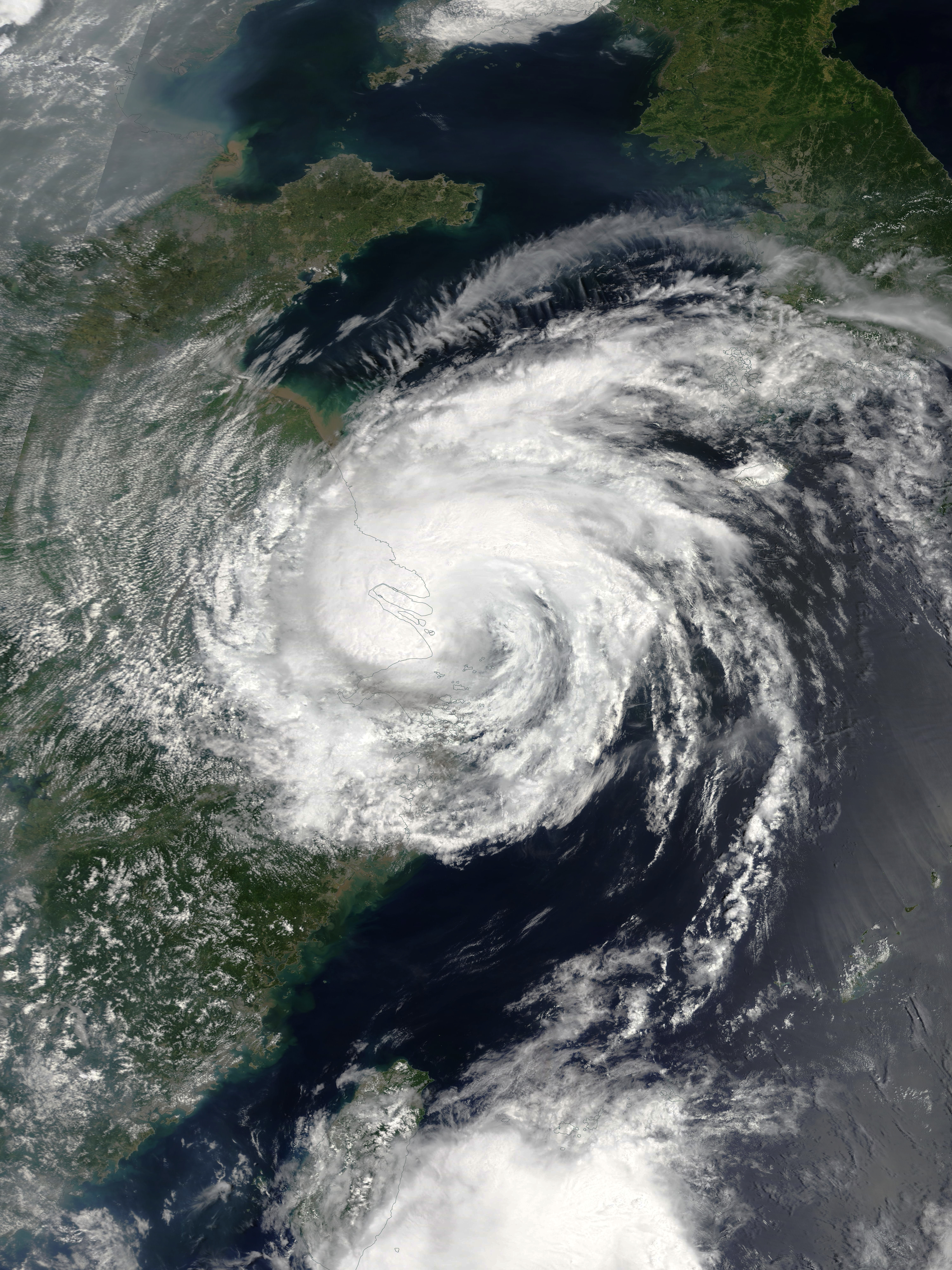 Severe Tropical Storm Ampil on July 22, 2018